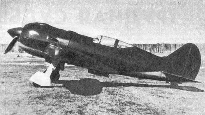 Soviet photo from early 1940s, author unknown.